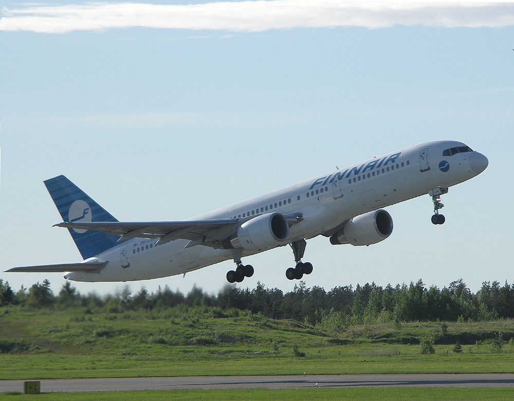 Finnair Boeing 757-200, still in the old livery, taking off at Turku Airport